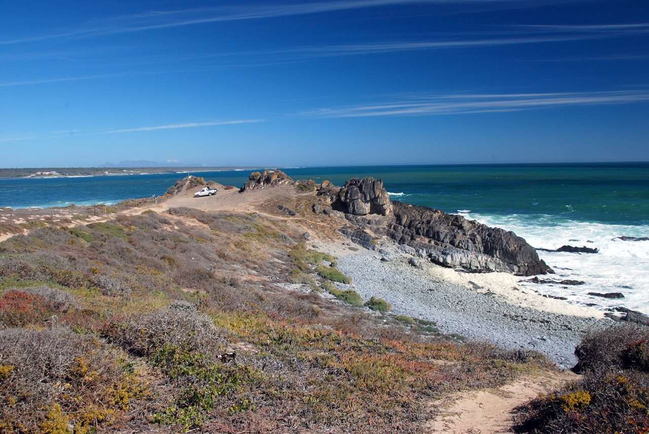 Grotto Bay is a settlement in West Coast District Municipality in the Western Cape province of South Africa.